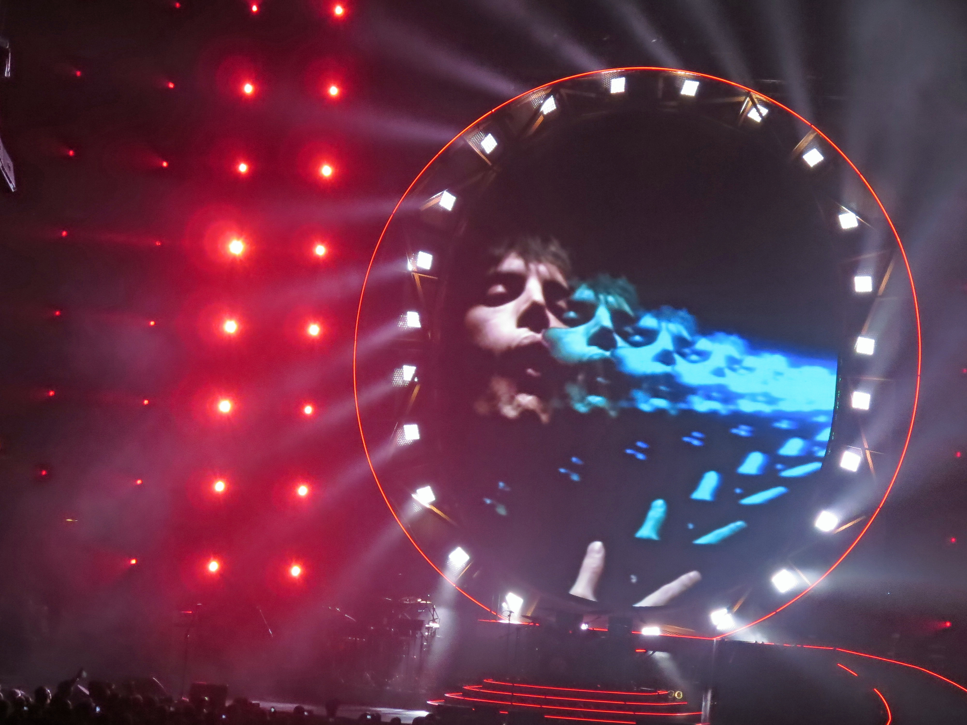 Queen @ United Center, Chicago 6/19/2014